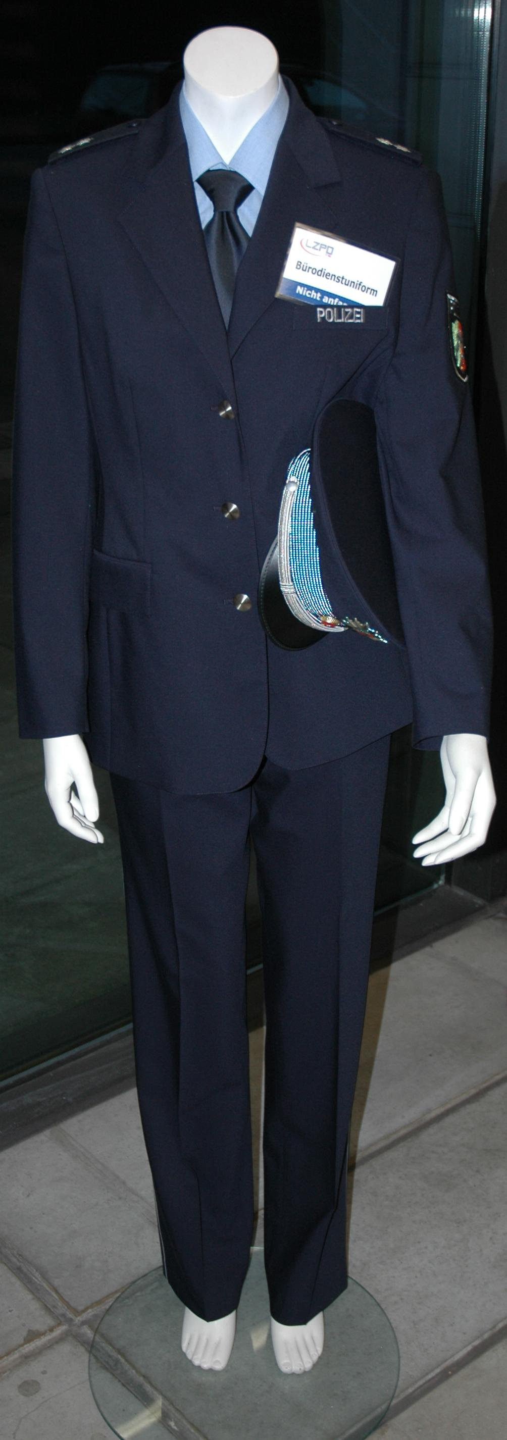 Buerodienstuniform in NRW / Police uniform for office purposes used in North Rhine-Westphalia